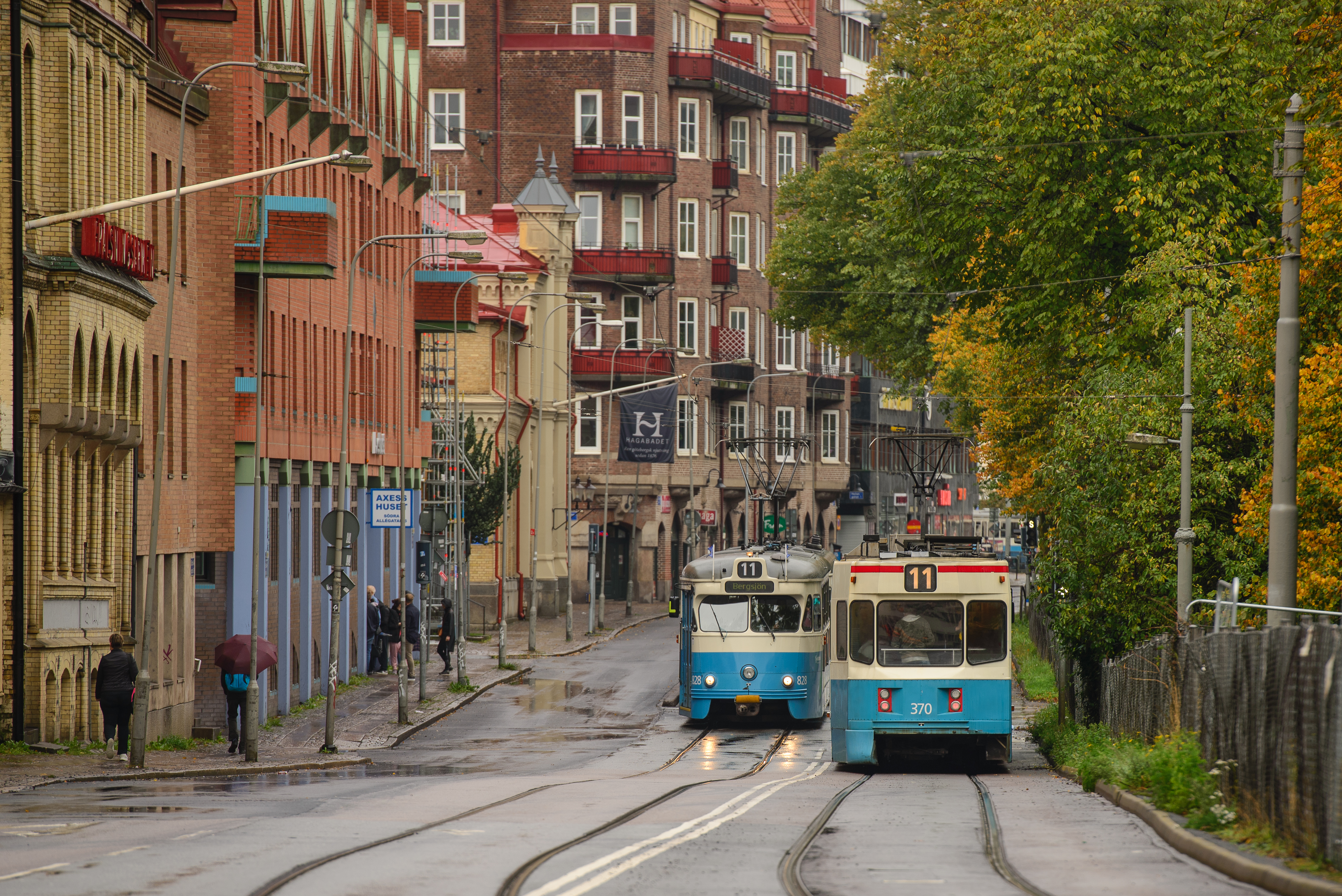 The street Södra Allégatan in Gothenburg, Sweden.